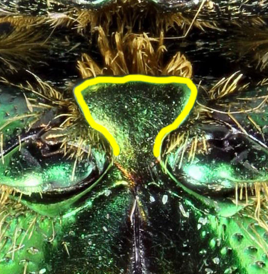 Protaetia (Eupotosia) affinis, mesosternum. The process of mesosternum marked with yellow outline.